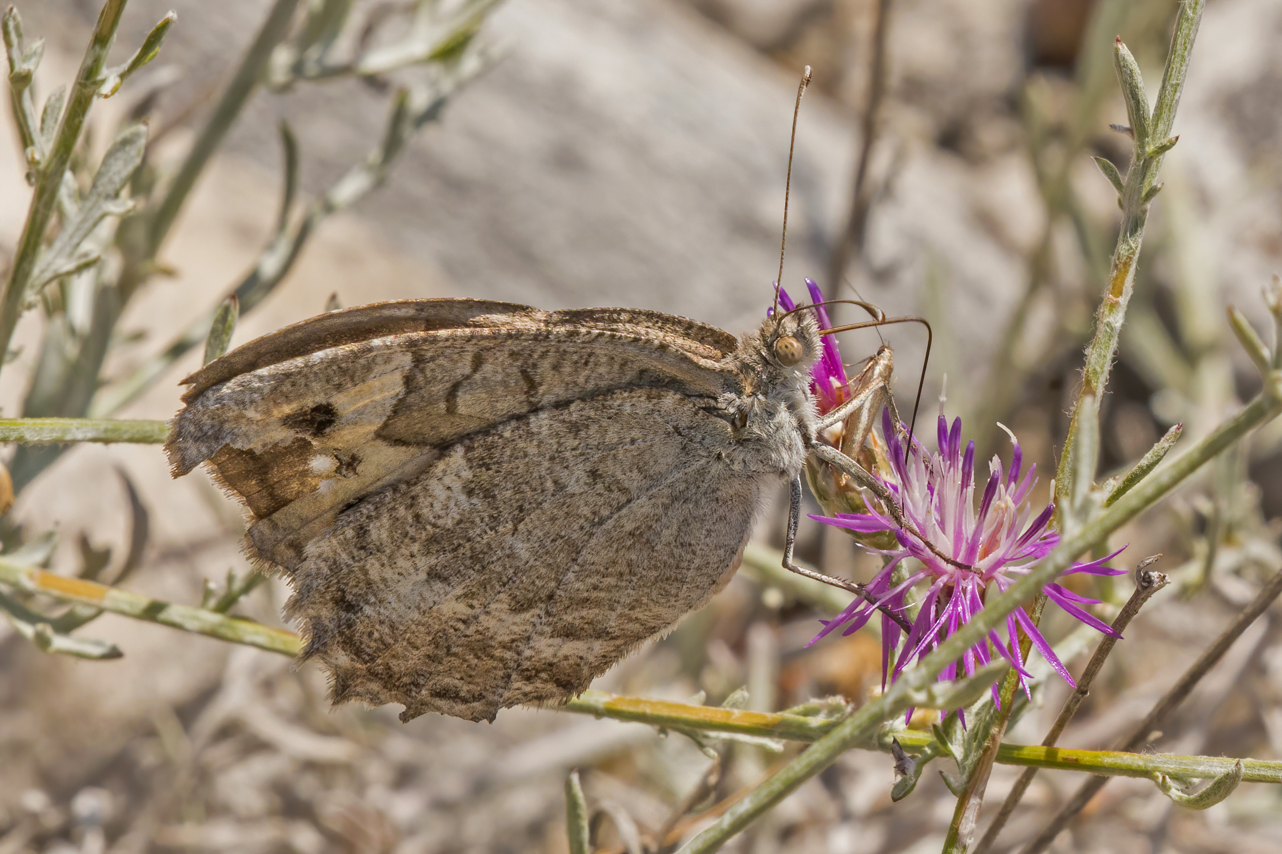 Macedonian grayling (Pseudochazara cingovskii), Pletvar, Republic of Macedonia